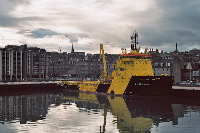 'Balder Viking' at Aberdeen The tug 'Balder Viking' 2424t was built in 2000 and sails under the Swedish flag. Seen here in the harbour at Aberdeen, she dwarfs the buildings alongside.